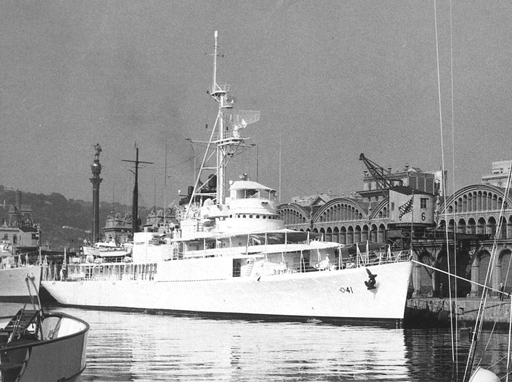 United States Navy seaplane tender USS Greenwich Bay (AVP-41) in Barcelona, Spain, en route a deployment as flagship in the Middle East in May or early June 1961.